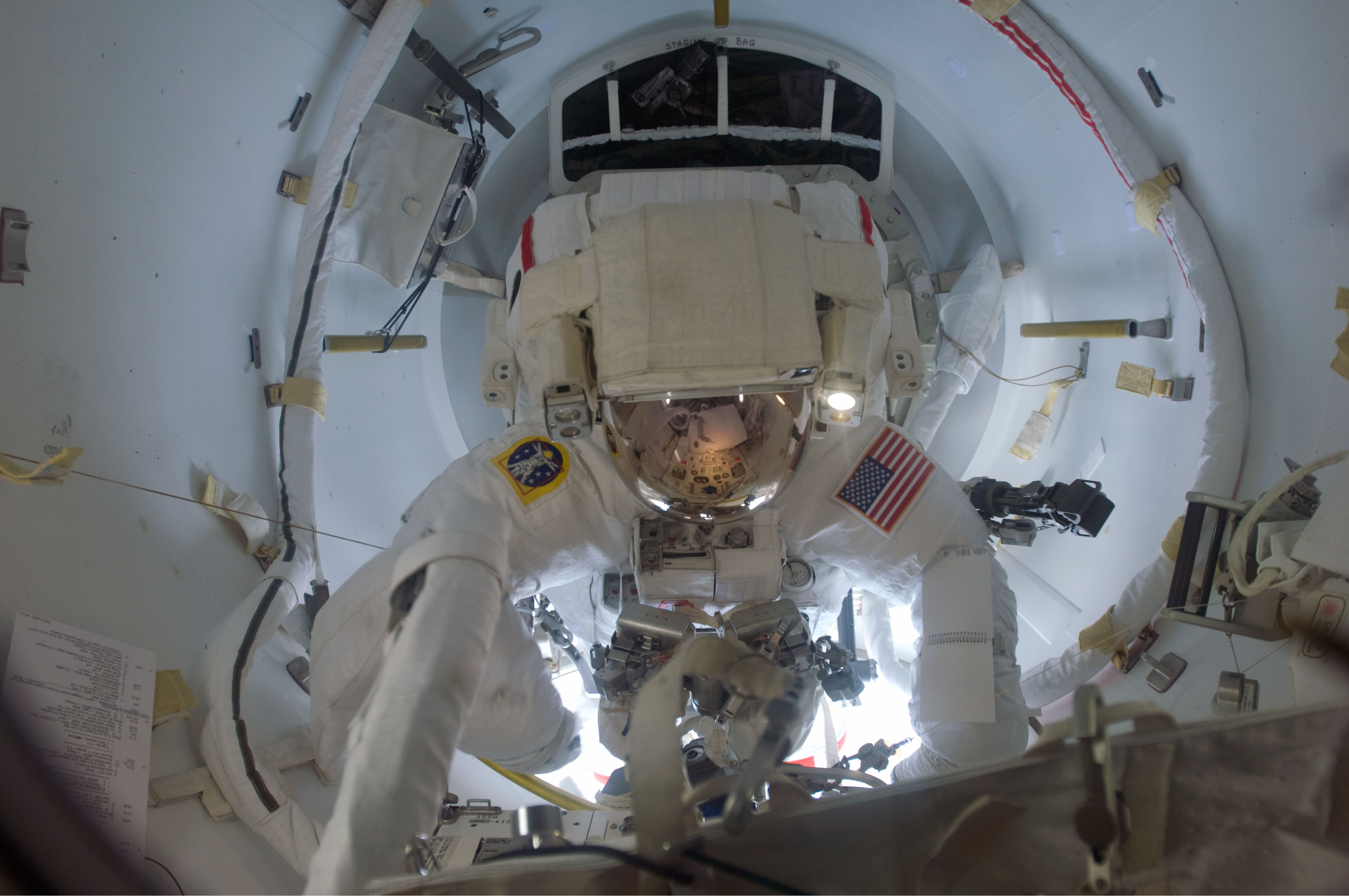 Astronaut Steve Swanson, STS-119 mission specialist, attired in his Extravehicular Mobility Unit (EMU) spacesuit, exits the Quest Airlock of the International Space Station to begin the mission's second session of extravehicular activity (EVA).